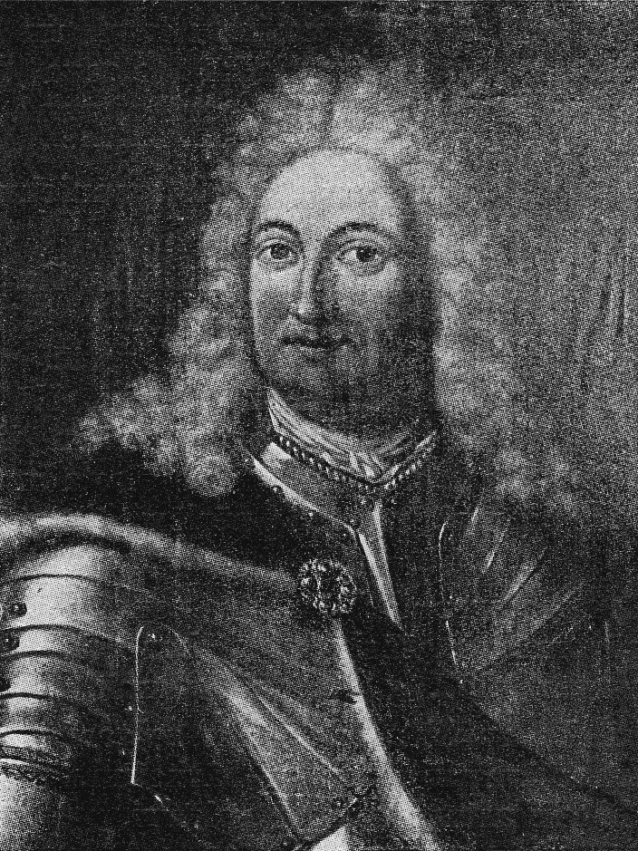 Friedrich Casimir Kettler. Duke of Courland and Semigallia.